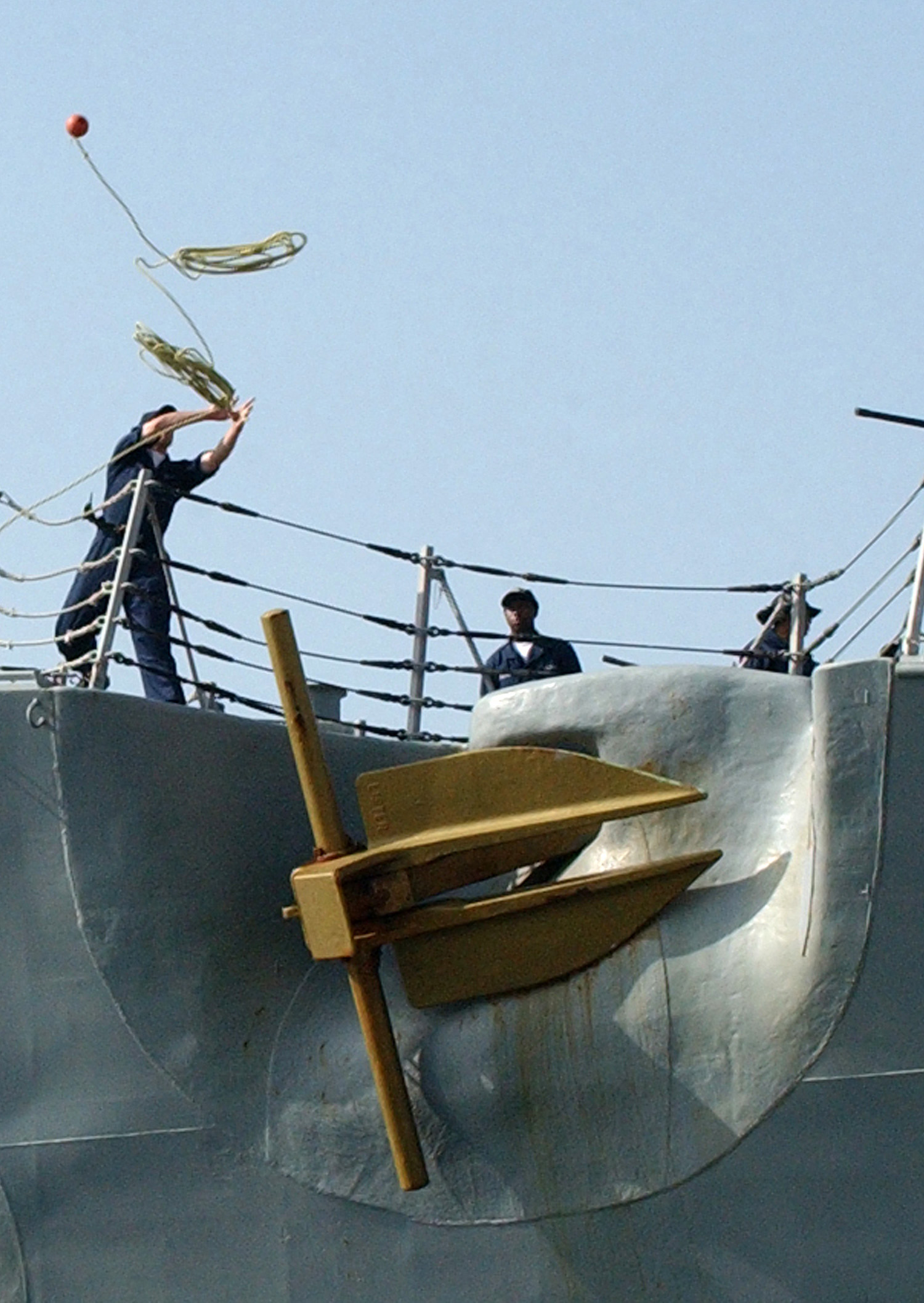 Souda Bay, Crete, Greece (July 20, 2005) - A Sailor sends over a heaving line to the pier for the bow line as the guided missile destroyer USS Mahan (DDG 72) arrives in Souda Bay for a routine port visit. Mahan recently participated in FRUKUS '05, a multilateral fleet training and command post exercise with France, Russia, and the United Kingdom in the eastern Atlantic Ocean. FRUKUS fosters an environment of cooperation suitable to meet future operational requirements and contingencies. U.S. Navy photo by Paul Farley (RELEASED)